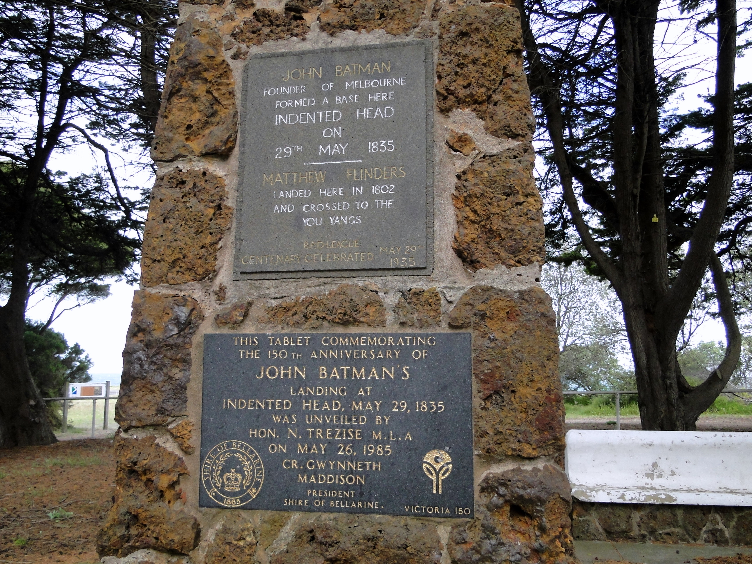 Detail of the inscription on the Matthew Flinders and John Batman memorial at Indented Head, Victoria, Australia.